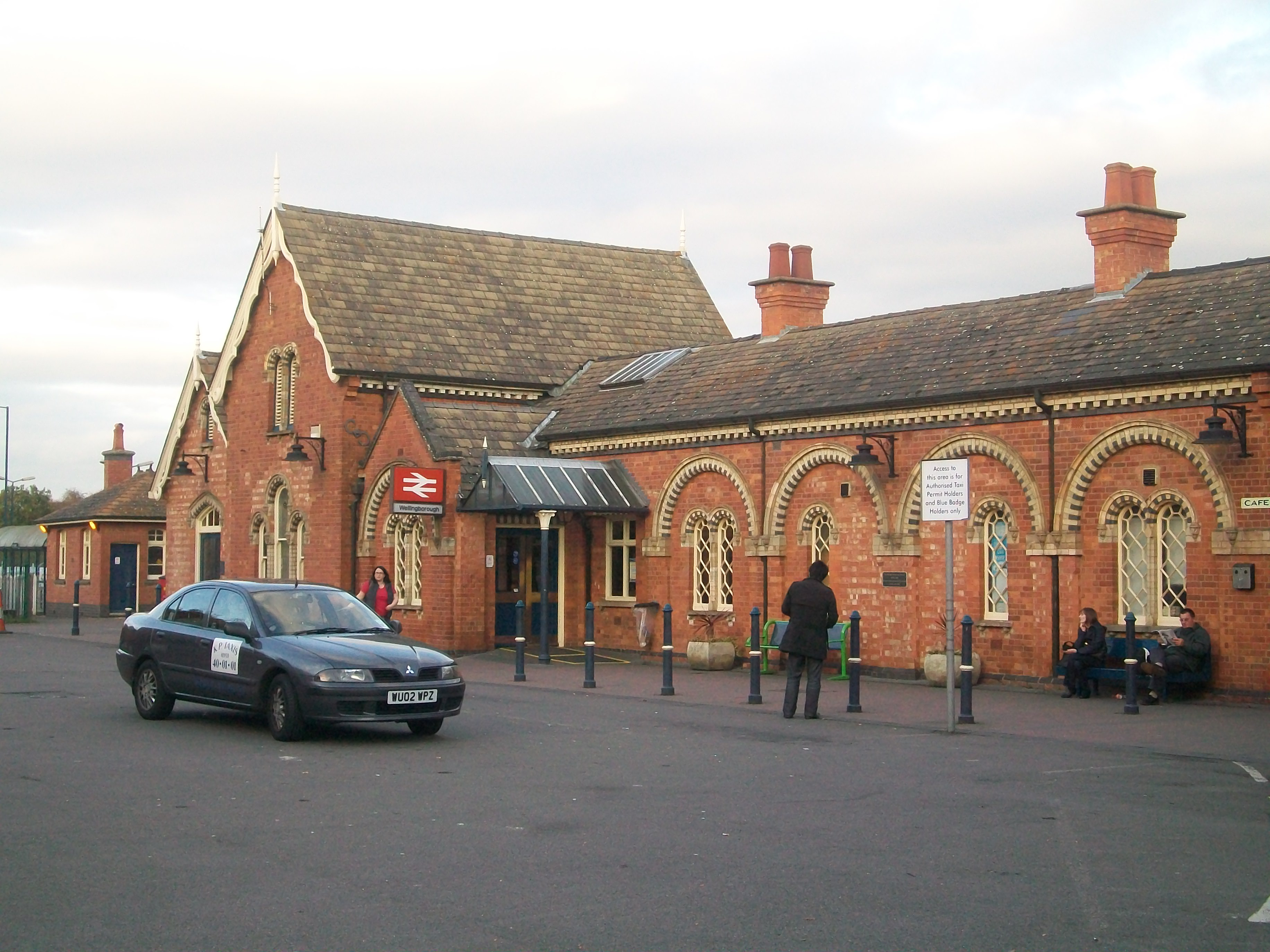 Wellingborough main station entrance